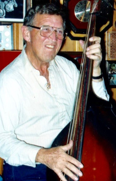 Floyd "Lightnin' " Chance with bass